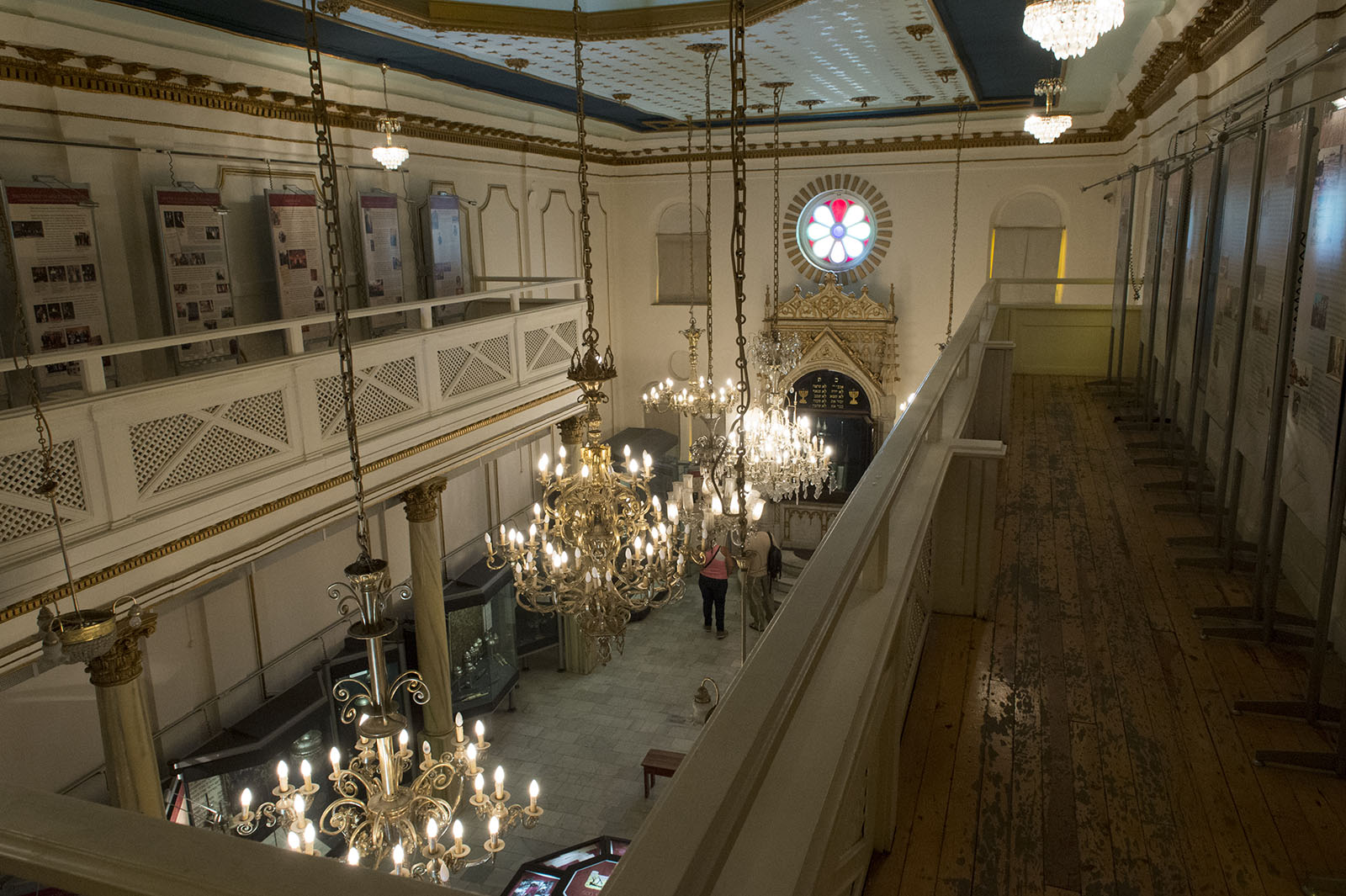 The museum seems to have been "updated" so some of the pictures may just show the situation as it was in 2014. Identifying objects was beyond me.